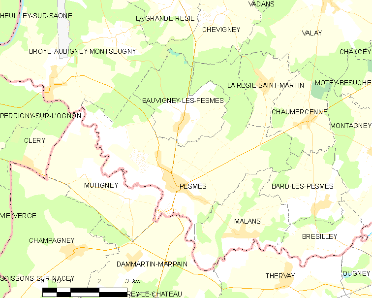 Map of French municipality